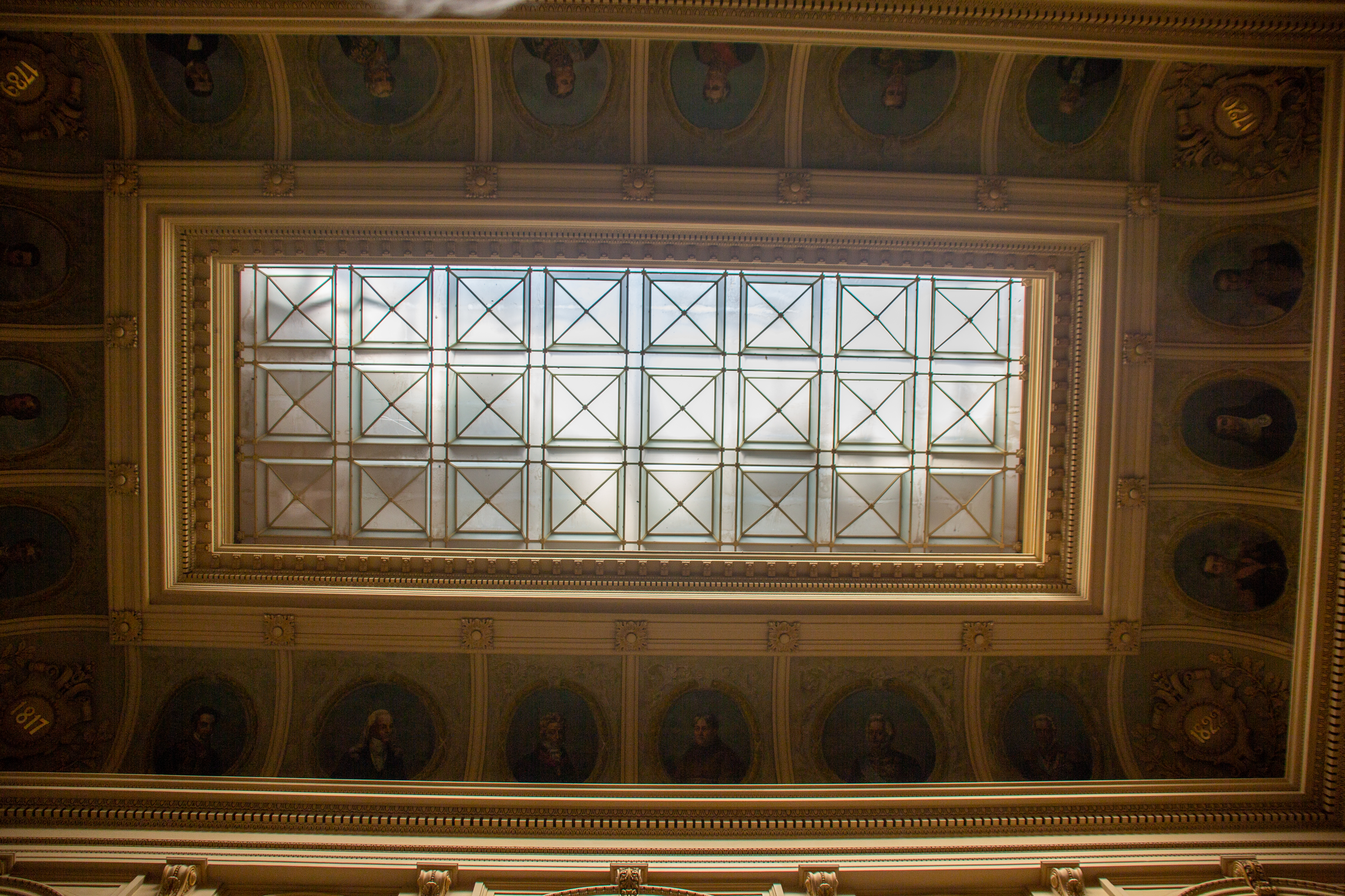 Backstage tour of the Museu do Ipiranga, University of São Paulo, Brazil